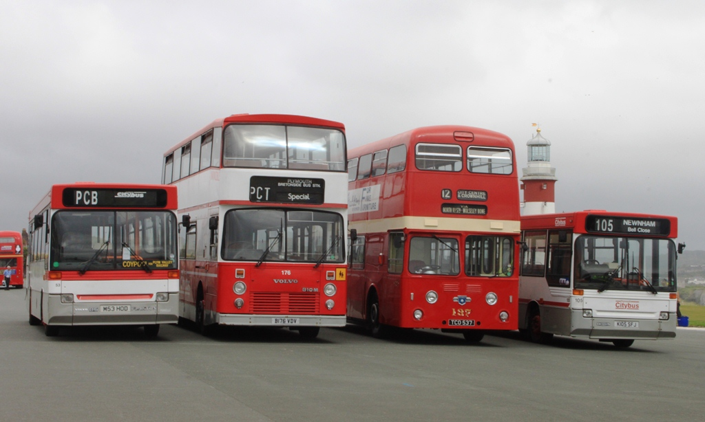 Four preserved Plymouth buses lined up on The Hoe. From left to right they are: Volvo B6 number 53 (registration M53 HOD of 1994); Leyland Atlantean coach 176 (B176 VDV of 1984); Leyland Atlantean bus 137 (MCO 537 of 1960); Dennis Dart 105 (K105 SFJ of 1992).